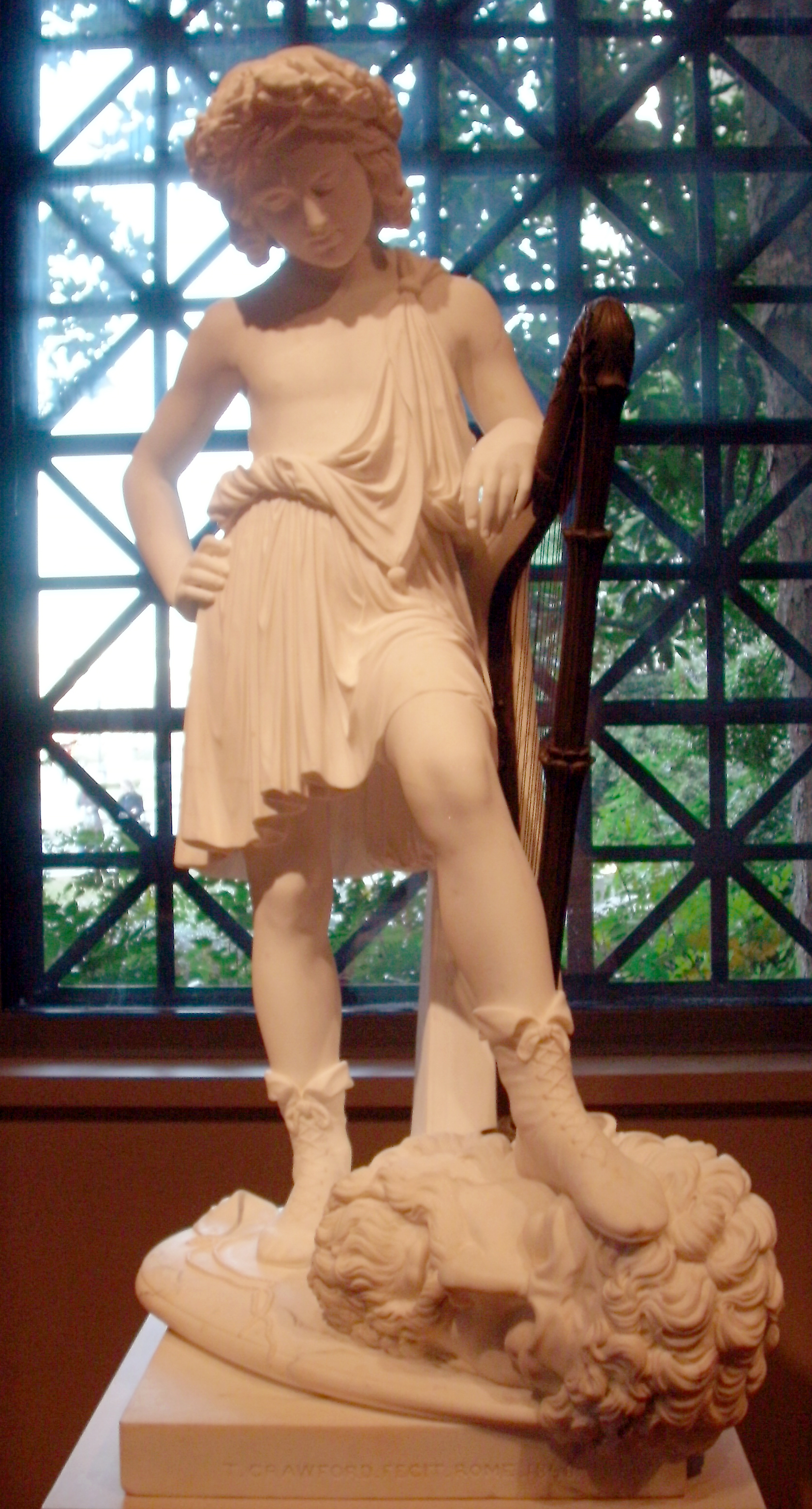 cropped and lightened from an image taken by me for Wikipedia